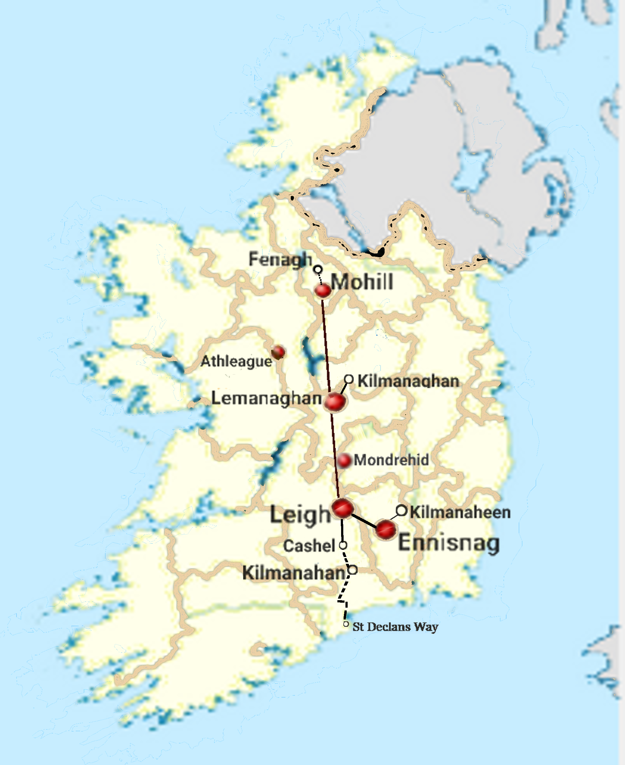 Route from Mohill-Manchan to Leigh, county Tipperary, and Ennisnag, county Kilkenny & Sites with connection to a St. Manchan